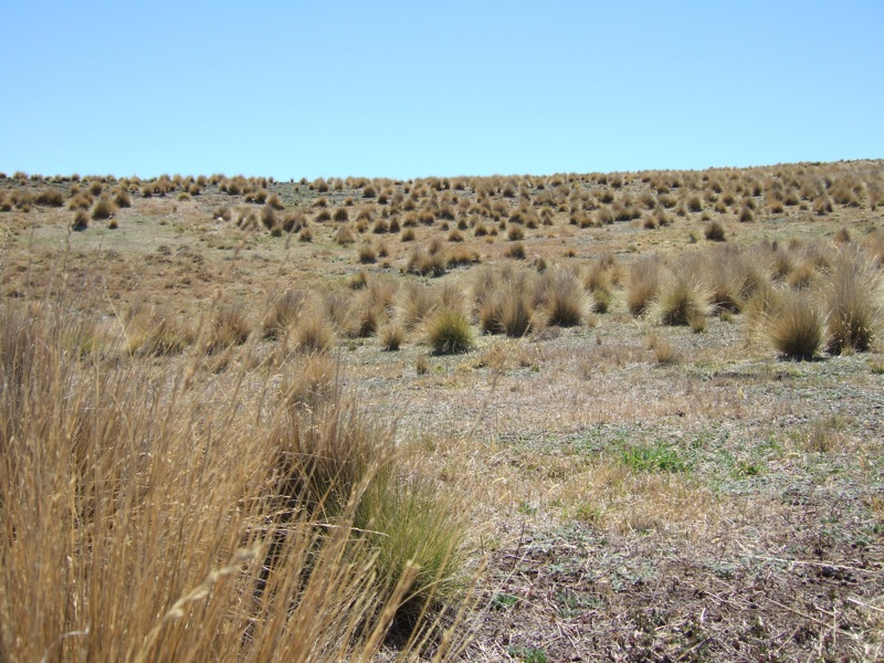 Tussock bunchgrasses on Mt. (St.) John, South Island, New Zealand (example of a "High Country" area).